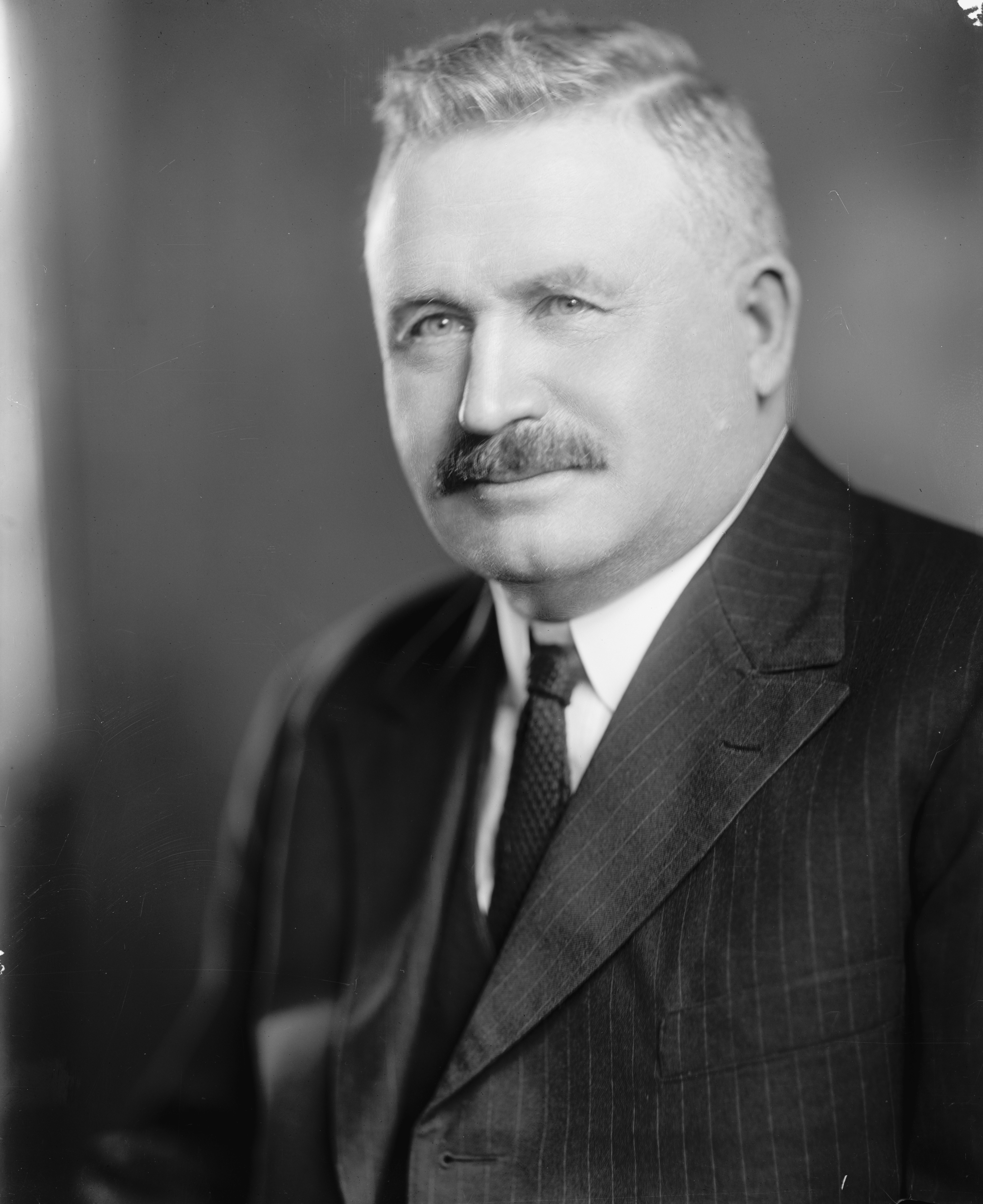 Title: NORBECK, P. SENATOR Abstract/medium: 1 negative : glass ; 8 x 10 in. or smaller